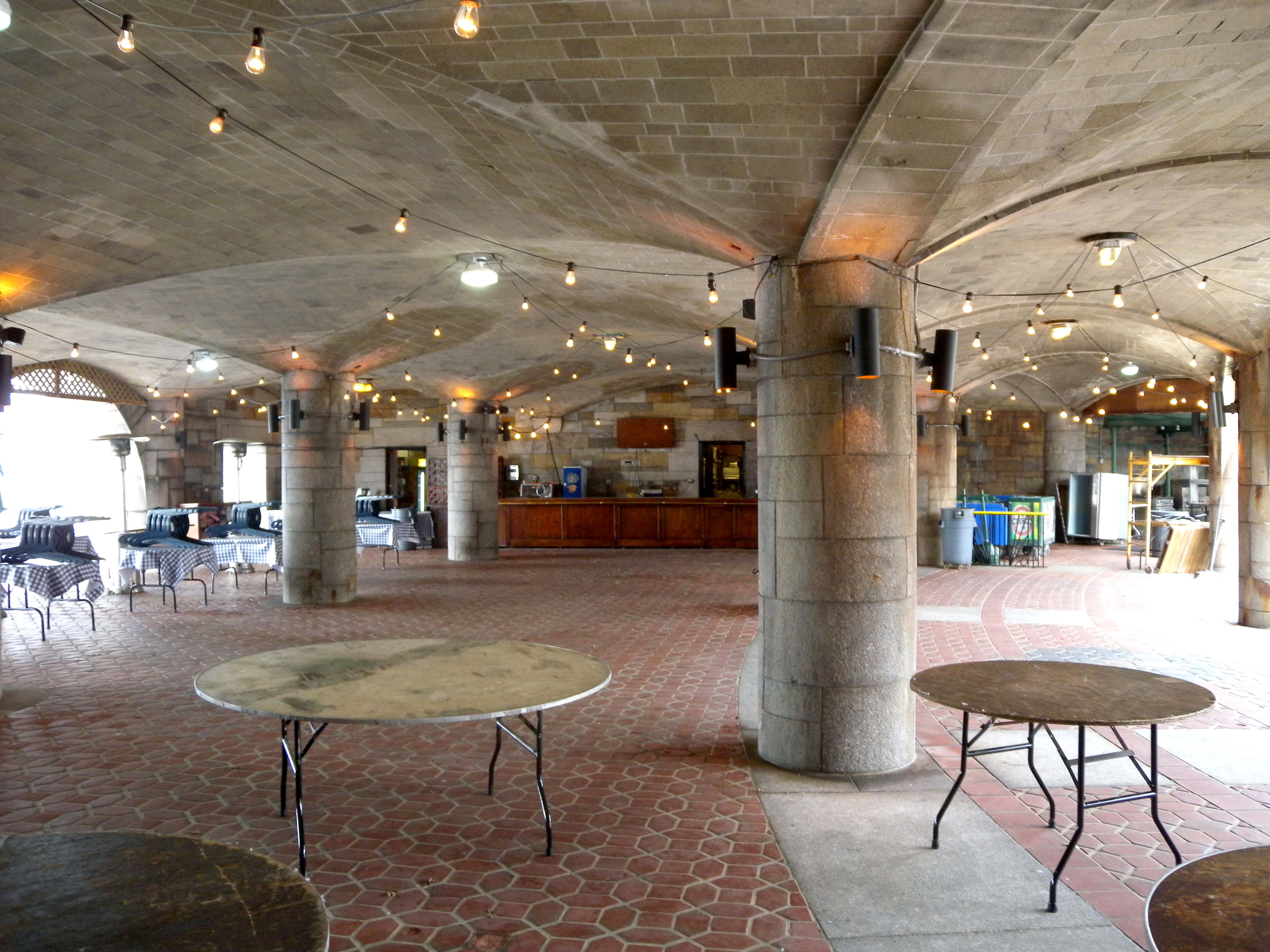 Looking north inside en:79th Street Boat Basin Cafe before opening. Note Guastavino tile ceiling. See also File:Boat Basin Cafe inside jeh.JPG.